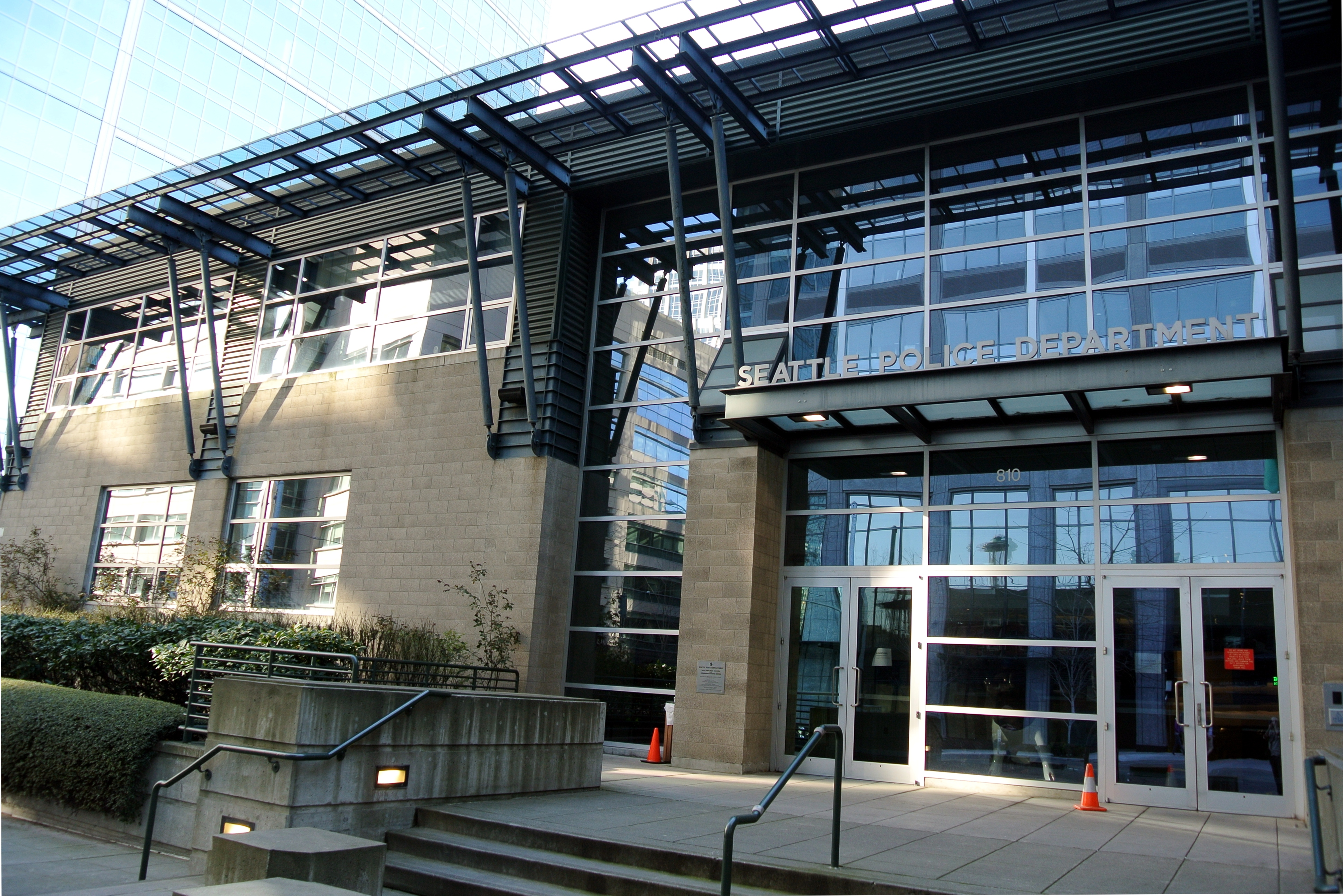 West Precinct, Seattle Police Department 810 Virginia Street